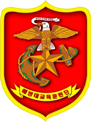 Republic of Korea Marine Corps Education and Training Group Insignia